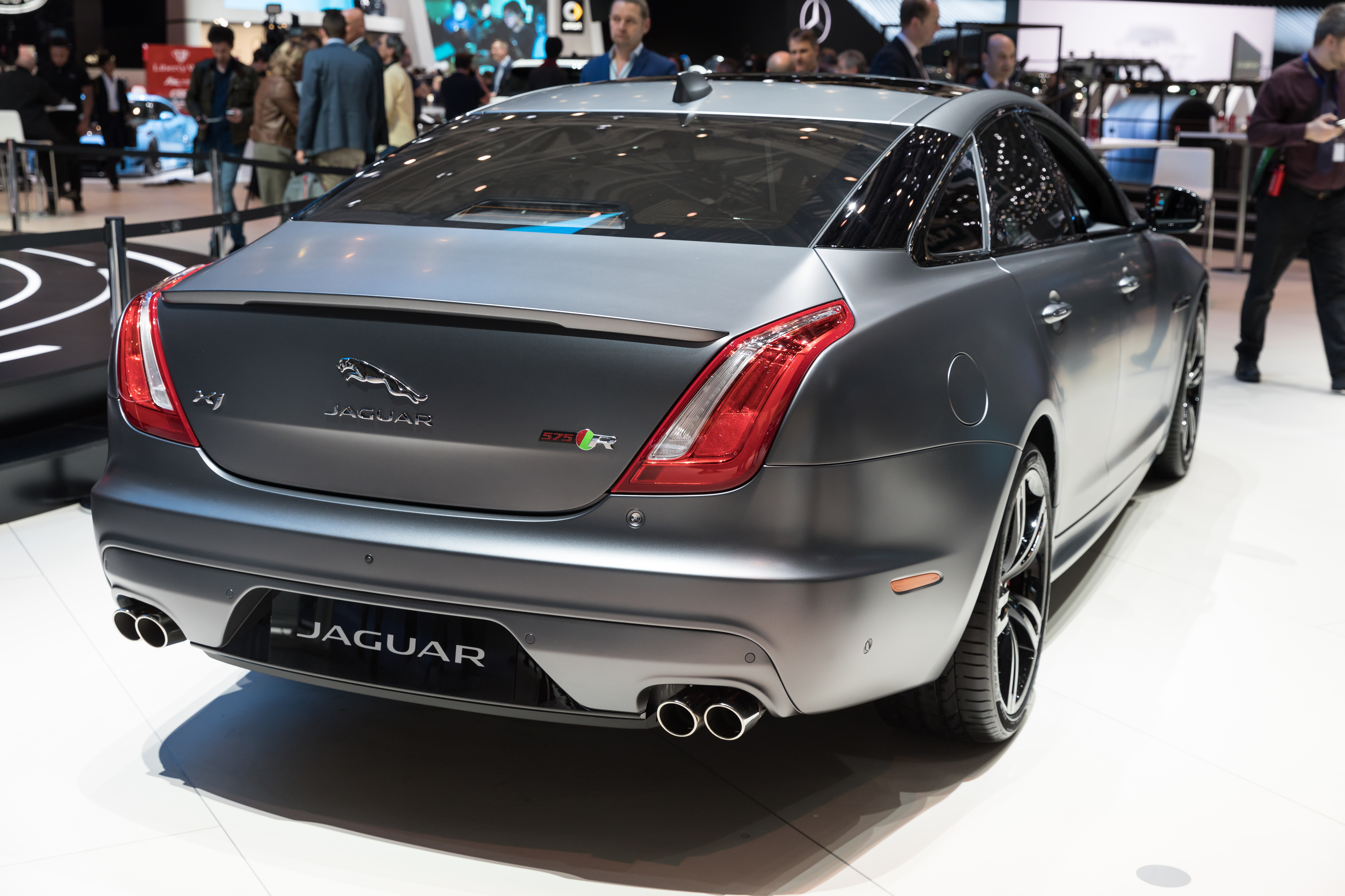 Jaguar XJR at Geneva International Motor Show 2018